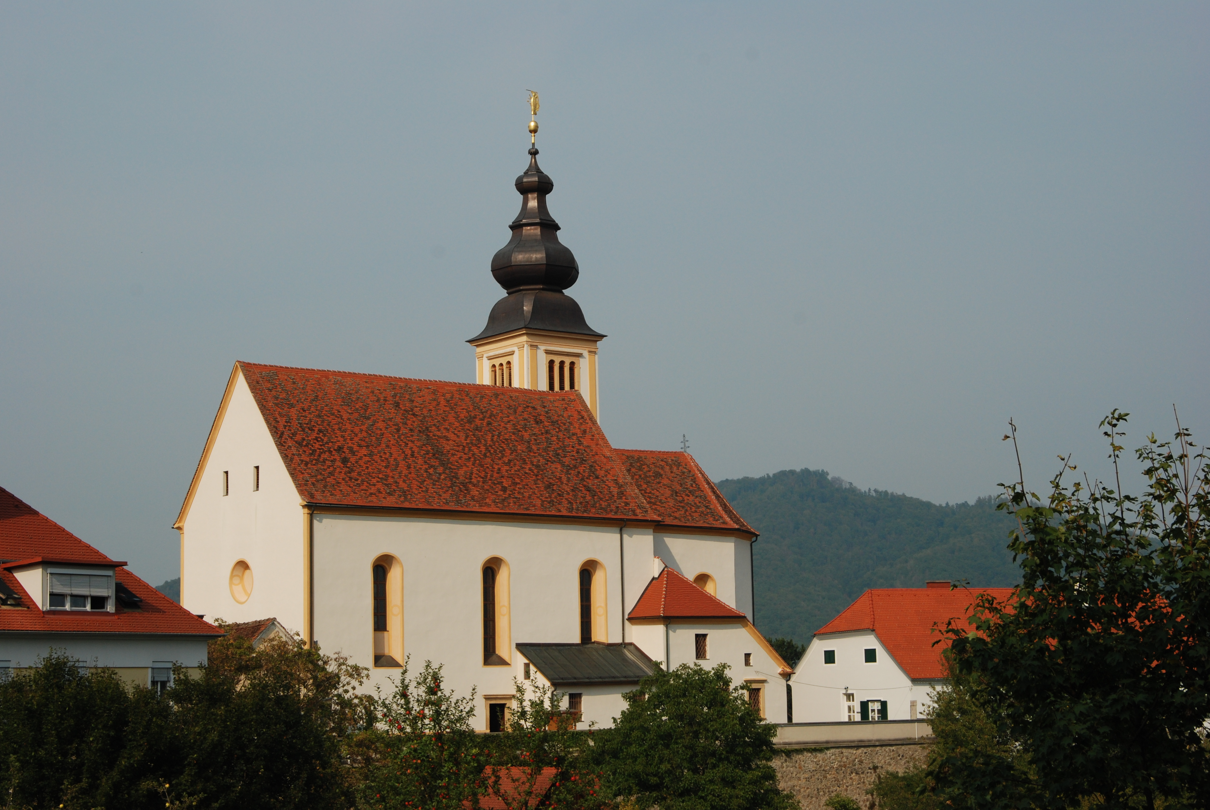 Kirche Trautmannsdorf